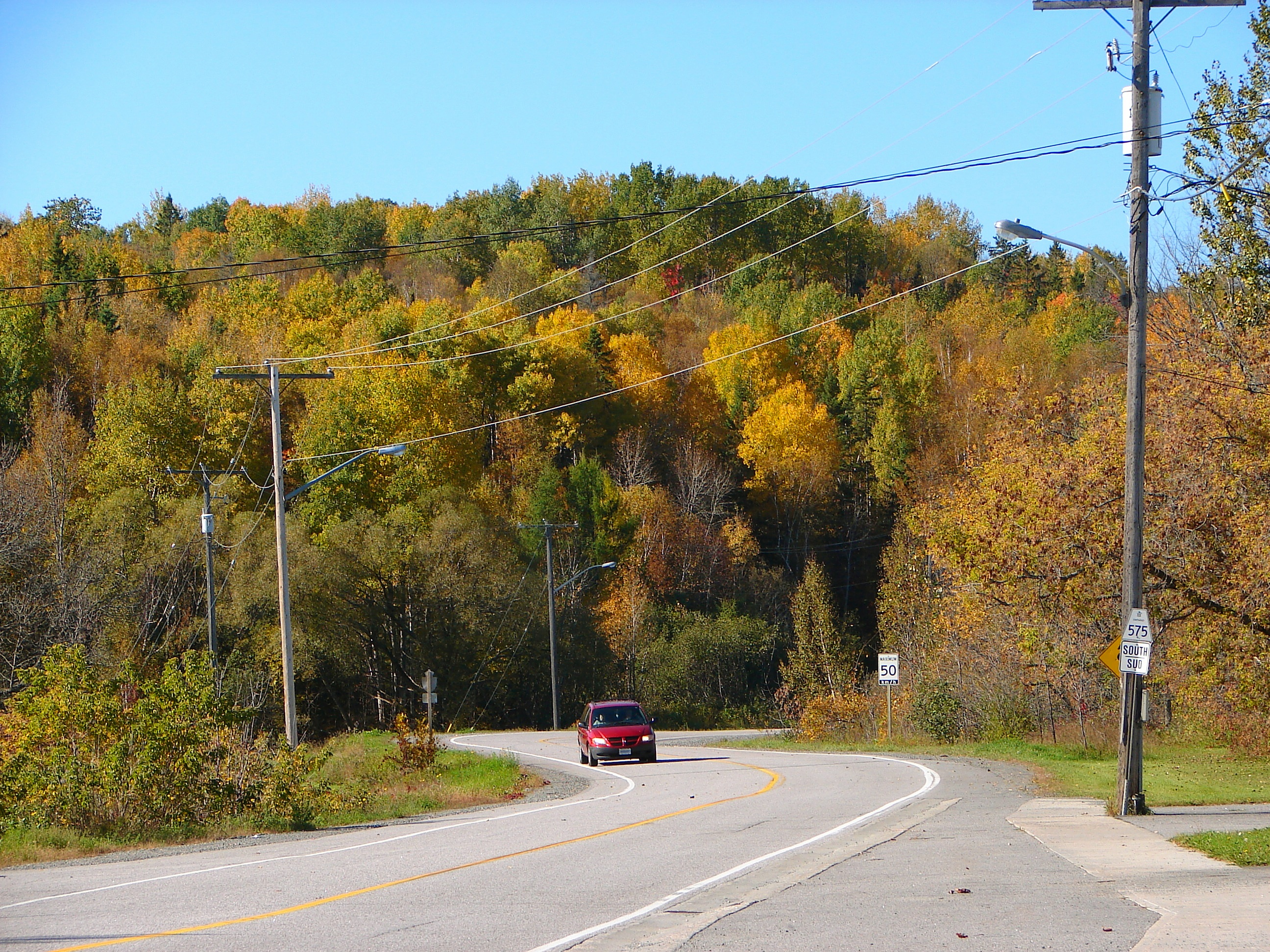 Ontario Secondary Highway 575 near Field, Ontario, Canada